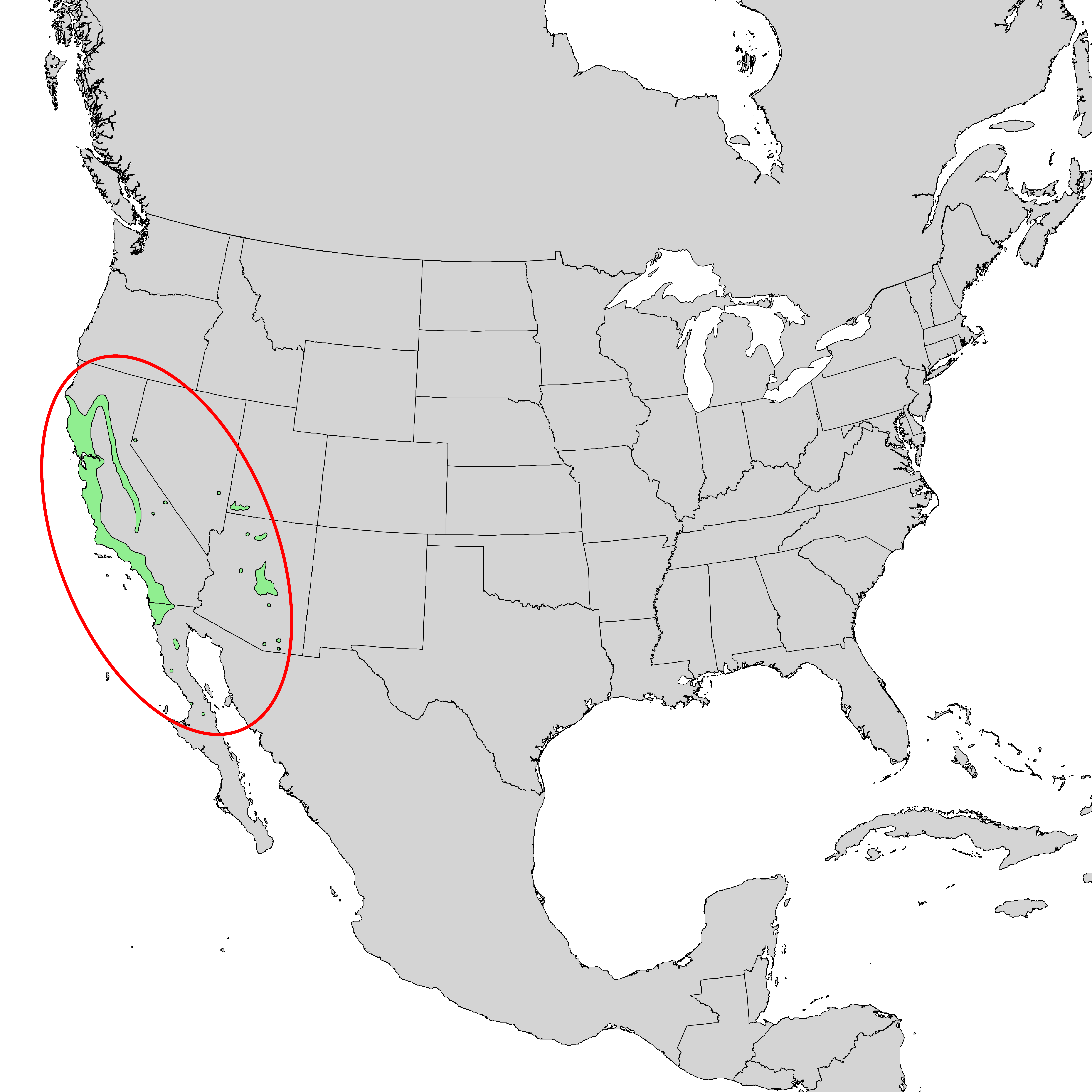 Natural distribution map for Salix laevigata (red willow)